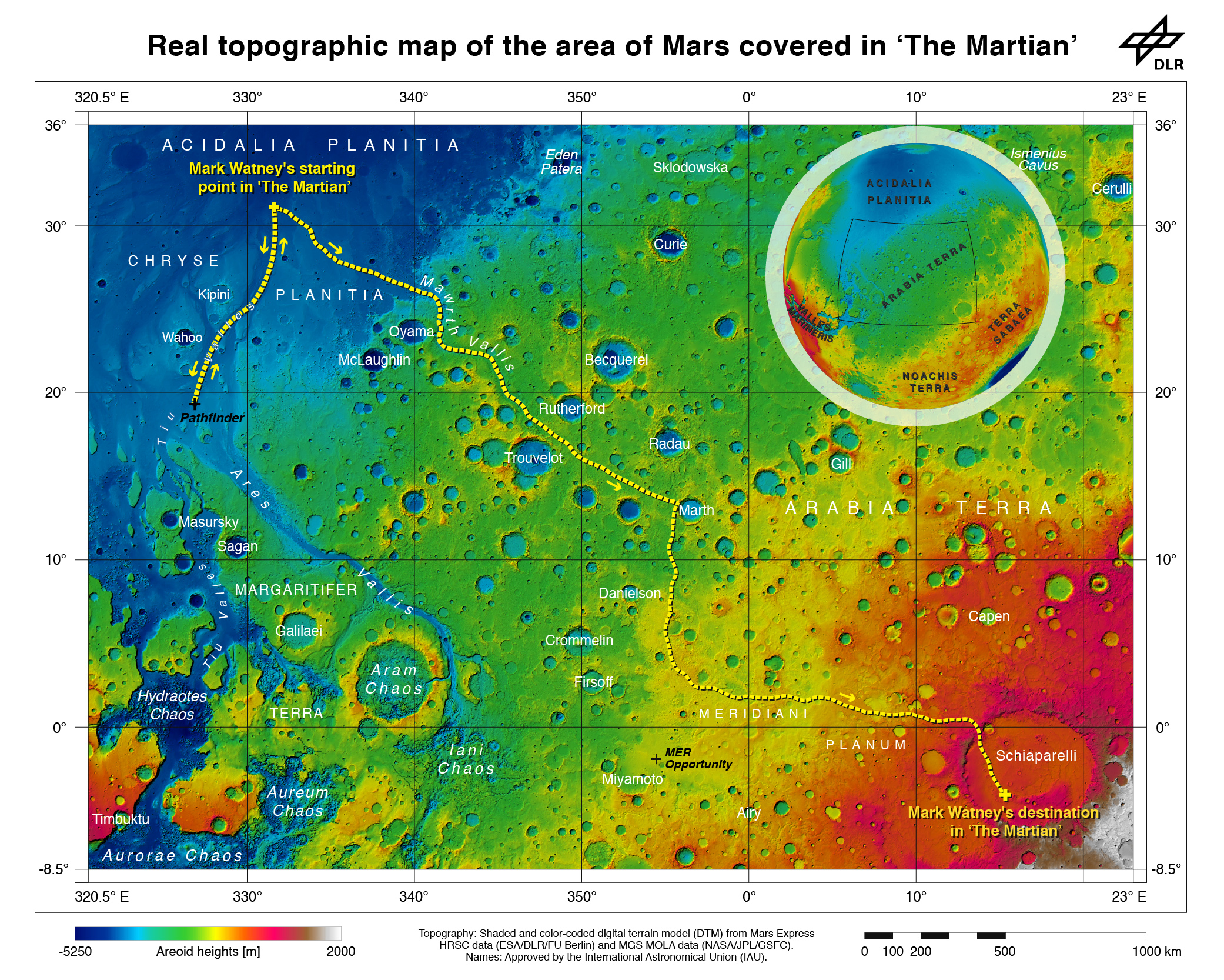 As part of the HRSC experiment on board ESA’s Mars Express spacecraft, scientists from the DLR Institute of Planetary Research have mapped the transition zone between the equator and the northern tropic region topographically. On the map, which contains sheet MC11 east, the route that ‘The Martian’, Mark Watney, travelled on Mars has been illustrated. Before he was able to leave his location at Chryse Planitia for the safety of Ares 4 in Schiaparelli Crater, he had to set up a radio transmitter that he obtained at the landing site of the first Mars rover, Soujourner, which arrived on the Red Planet in 1997 as part of the Mars Pathfinder mission. Sojourner was located a few hundred kilometres to the south of Chryse Planitia. His journey continued to the mouth of Mawrth Vallis, which he drove up and gained about 2000 metres in altitude. Following this, Watney drove an additional 2500 metres uphill through the rough Meridiani Planum, which is littered with craters, to the rim of the 450-kilometre diameter Schiaparelli Crater. On the northwestern rim of the crater, a landslide has created a natural ramp that Watney used to access the crater floor, some 700 metres below, where the the Ares-4 rocket was 'parked'.